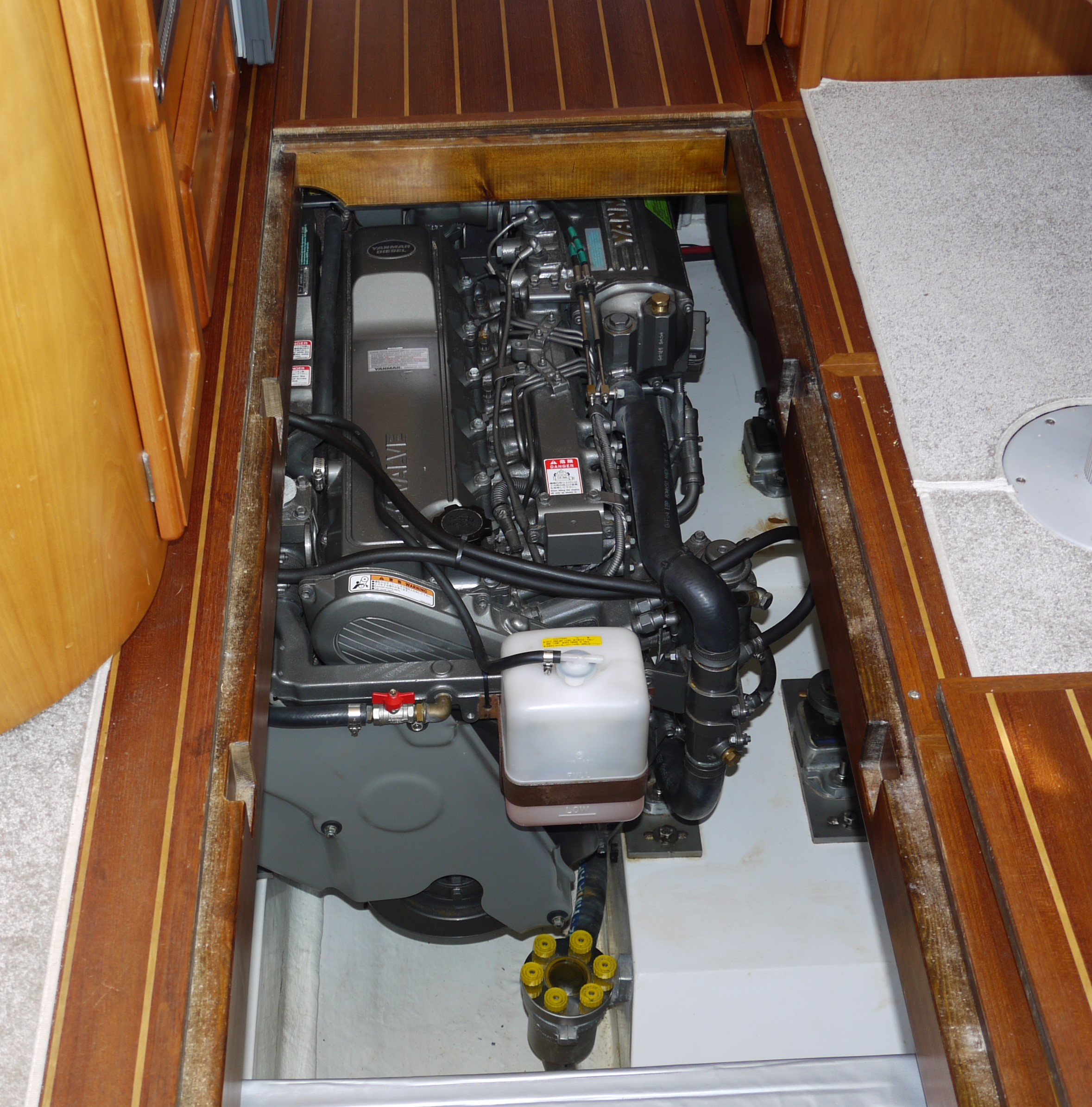 Photo showing installation of Yanmar 6LPA diesel engine in a Corvette 320 motoryacht